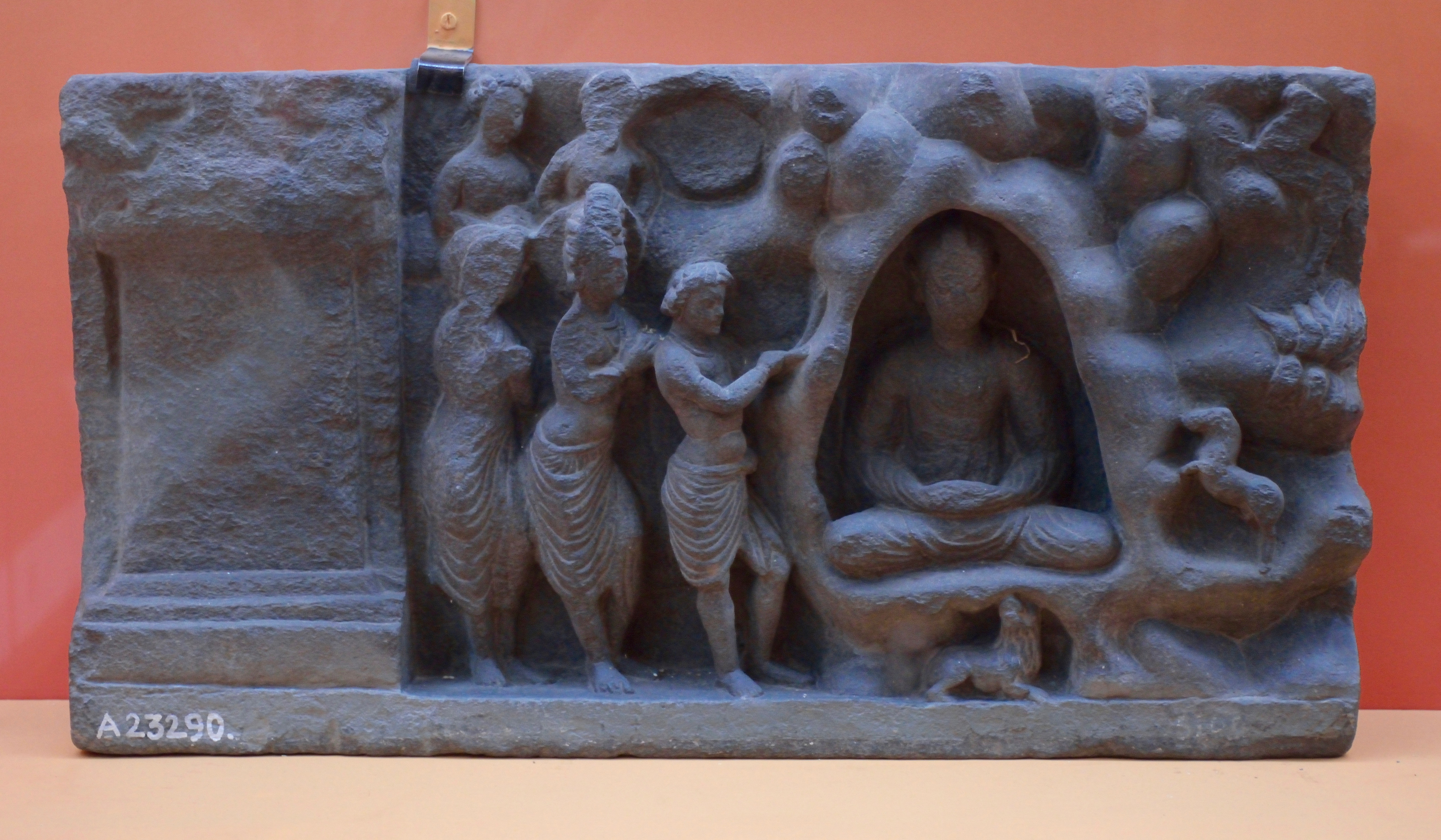 This photograph has been taken during the 'Indian Buddhist Art' exhibition that organised by the Indian Museum, Kolkata with 91 rare Buddhist artifacts comprising sculptures and manuscripts at its two different halls to celebrate 202nd anniversary of the museum. This exhibition was previously shown to China, Japan, Singapore and New Delhi also between September 2014 and December 2015.